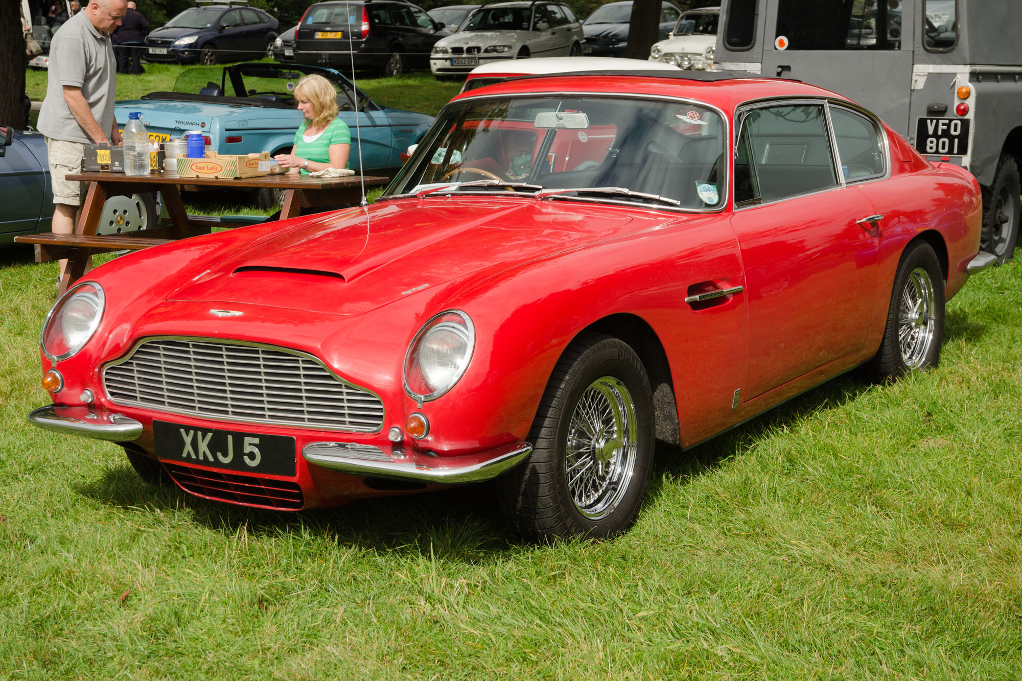 Cholmondeley Classic Car Show 31/08/2014